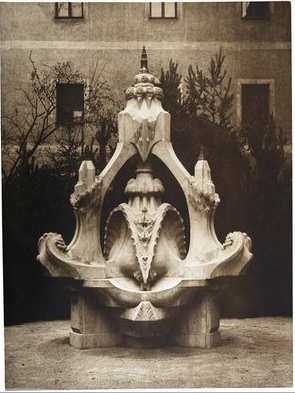 Krupp fountain in the courtyard of the Kunstgewerbehaus, Munich. 1912. Photographer unknown.